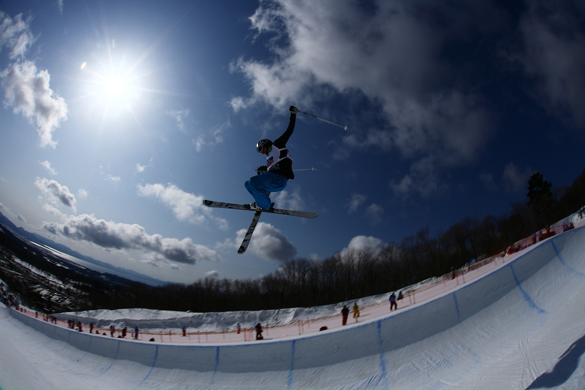 MARCH 5, 2009 - Freestyle Skiing : Xavier Bertoni of France in action during the Half-pipe in the 2009 FIS Freestyle World Championship Inawashiro on March 5, 2009 in Fukushima, Japan. (Photo by Tsutomu Takasu)